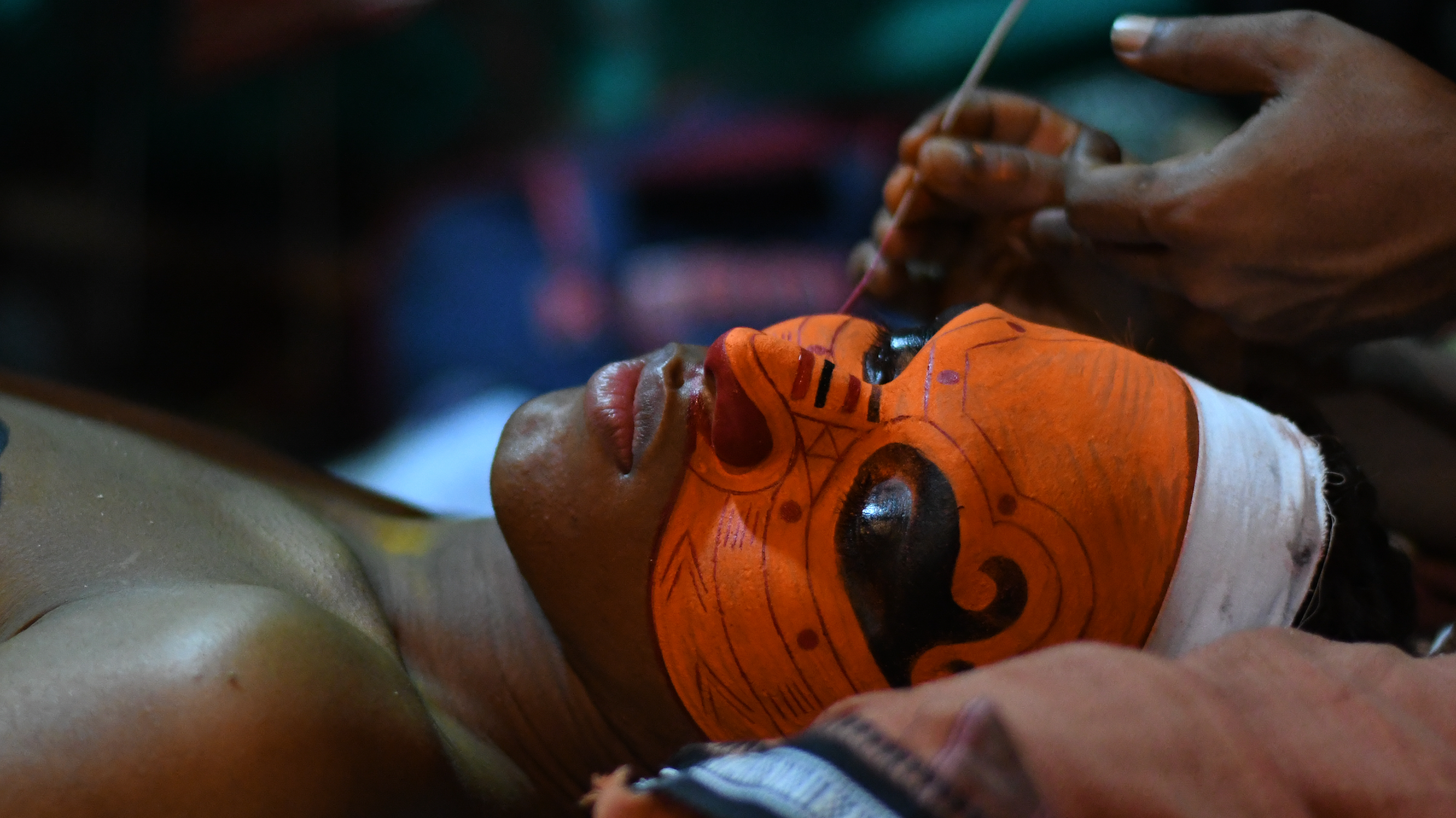 Theyyam is a ritual art of kerala